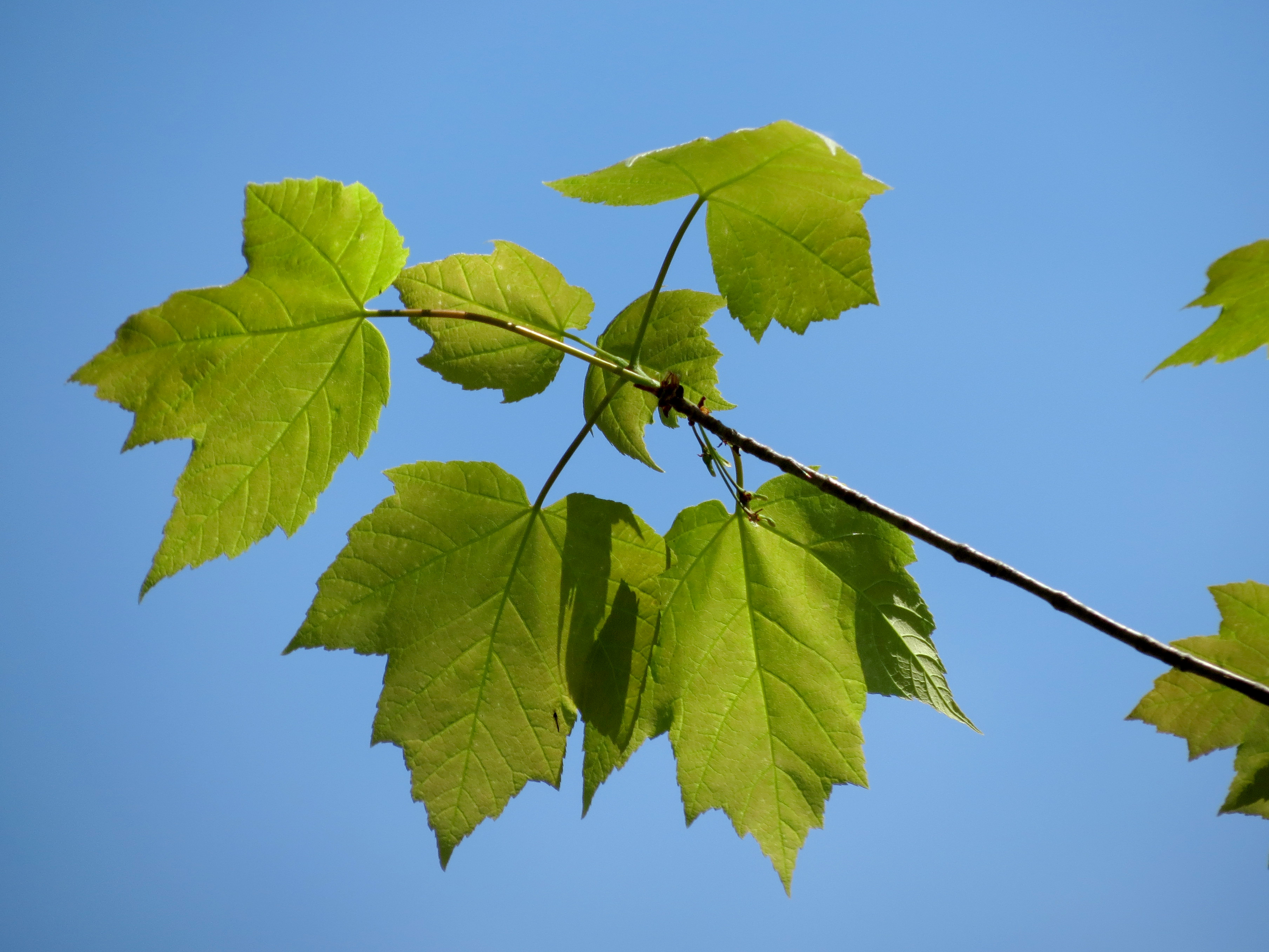 Acer sp. Rock Creek Park, Washington, DC, USA.